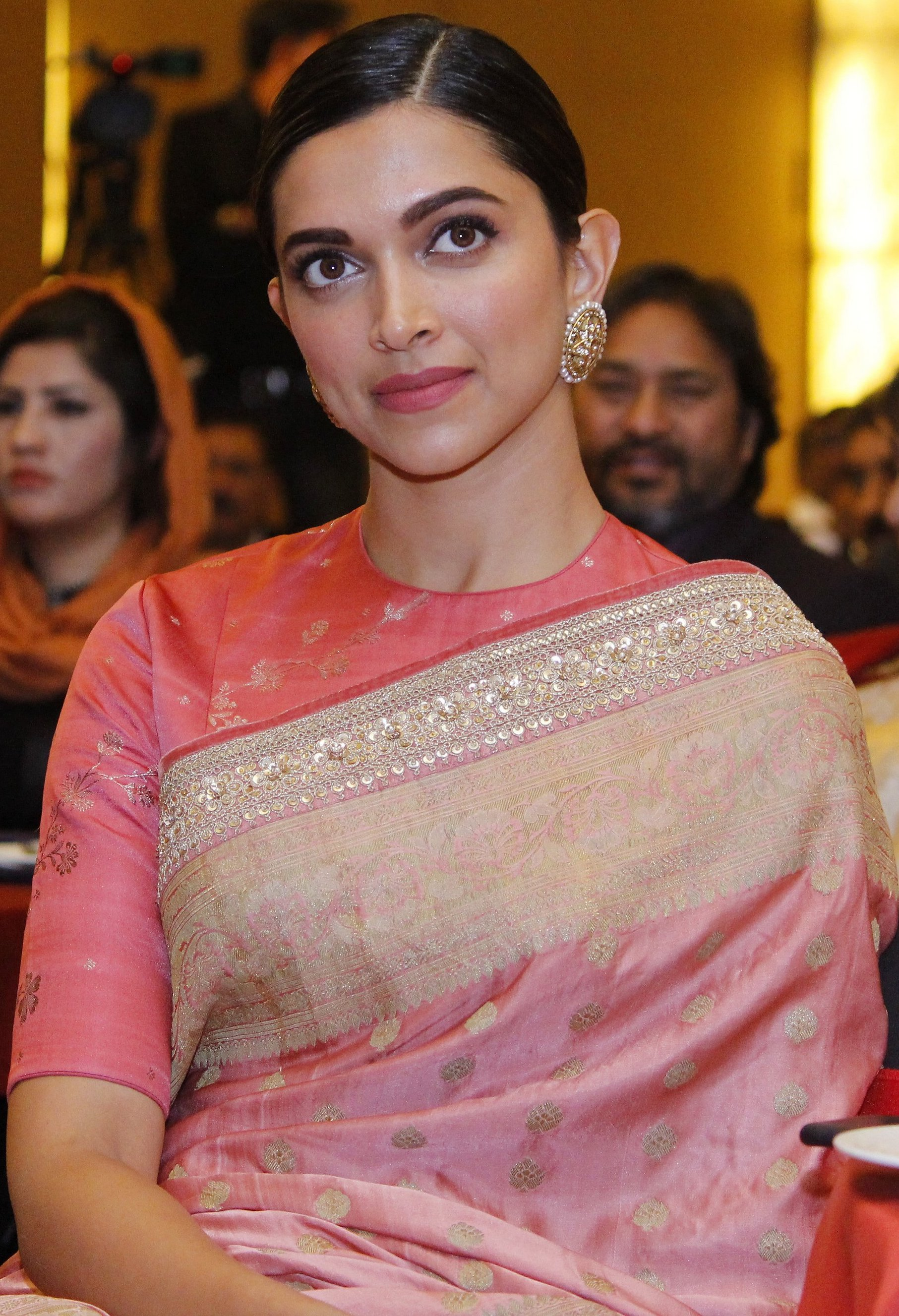 Deepika Padukone at Yonex Sunrise India Open 2018